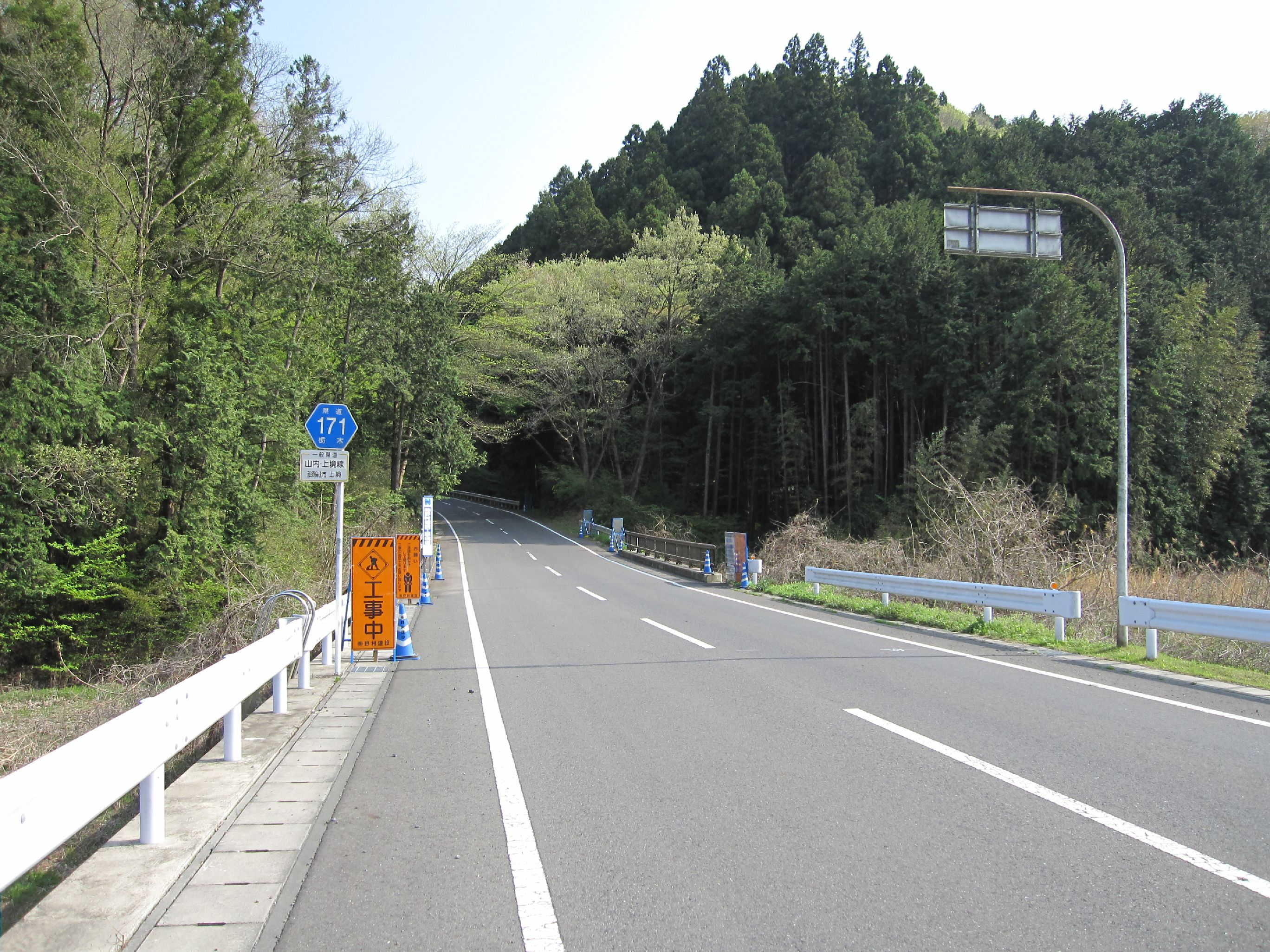 Tochigi prefectural road No.171 on Nasukarasuyama city